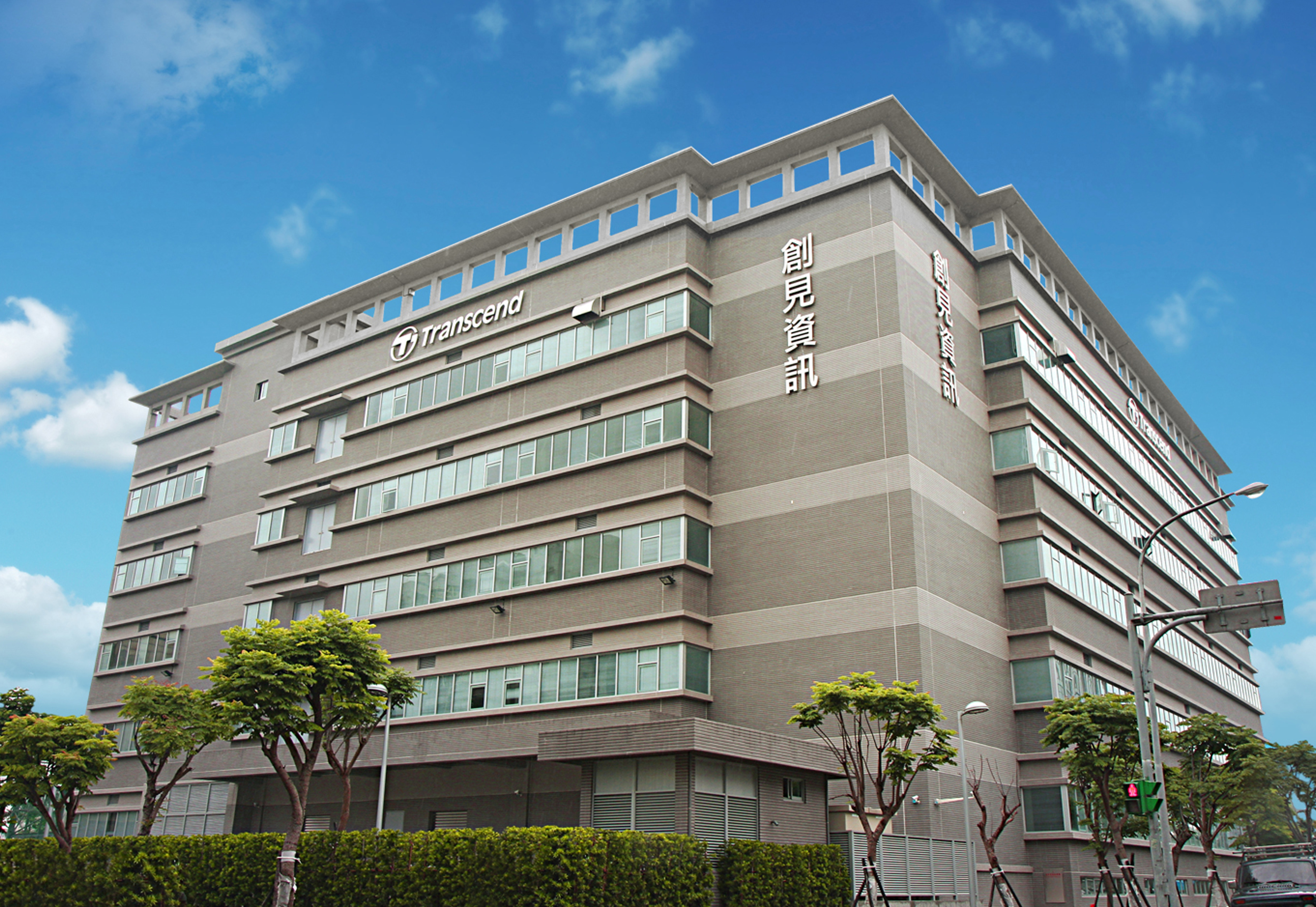 Neihu Plant, Transcend Information.